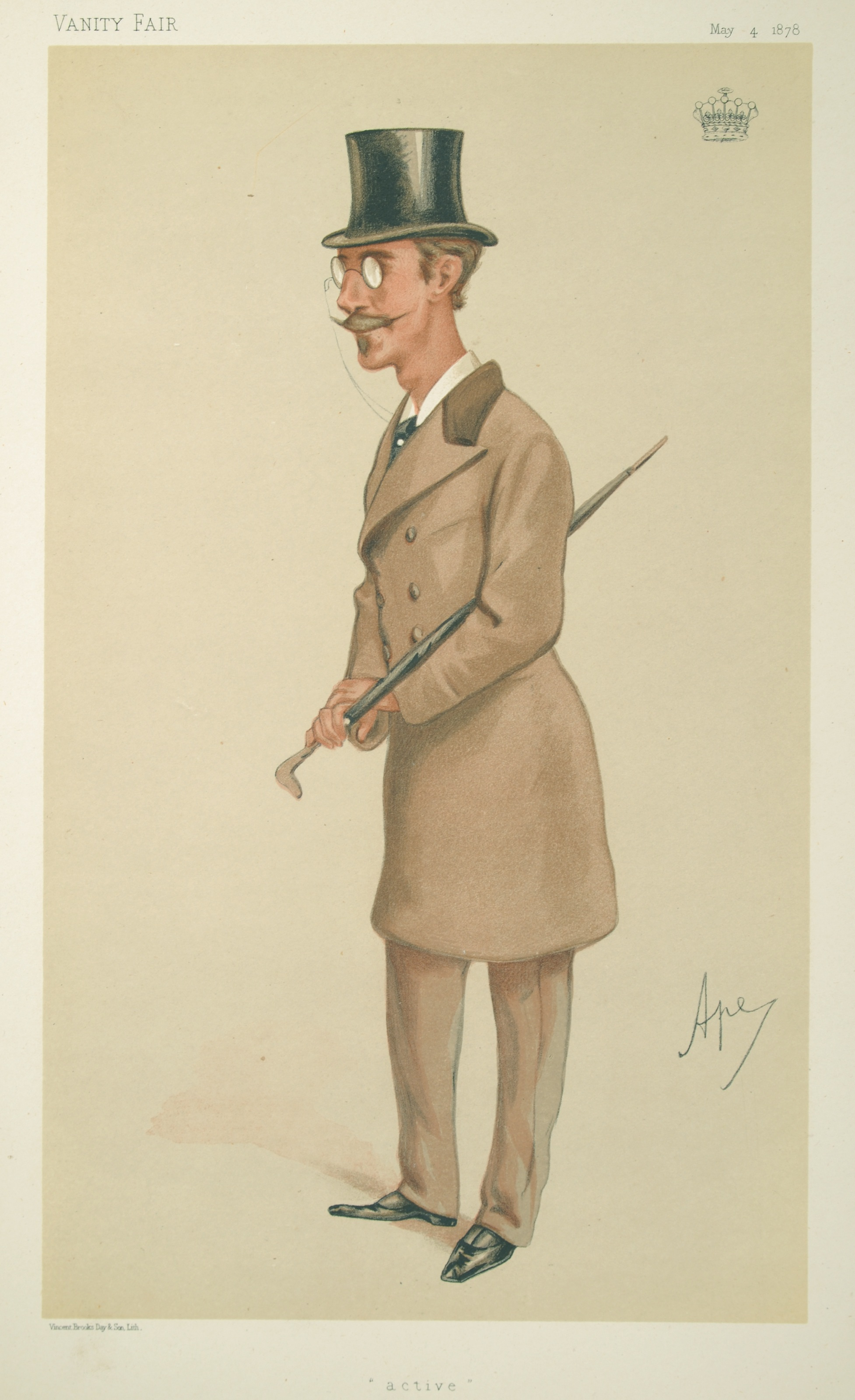 Statesmen No.272: Caricature of The Earl of Dunraven and Mount-Earl. Caption reads: "active"